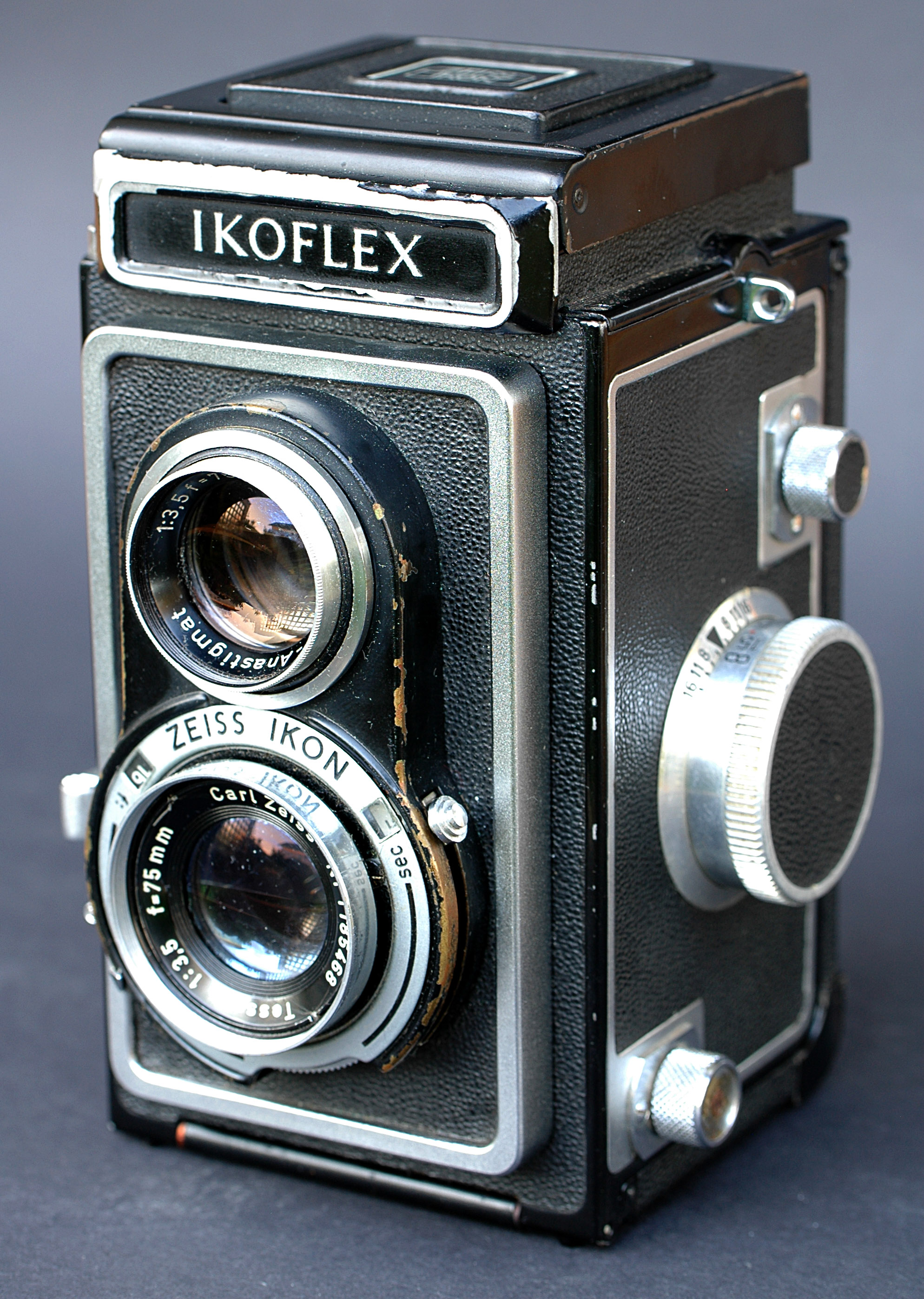 Zeiss-Ikon Ikoflex